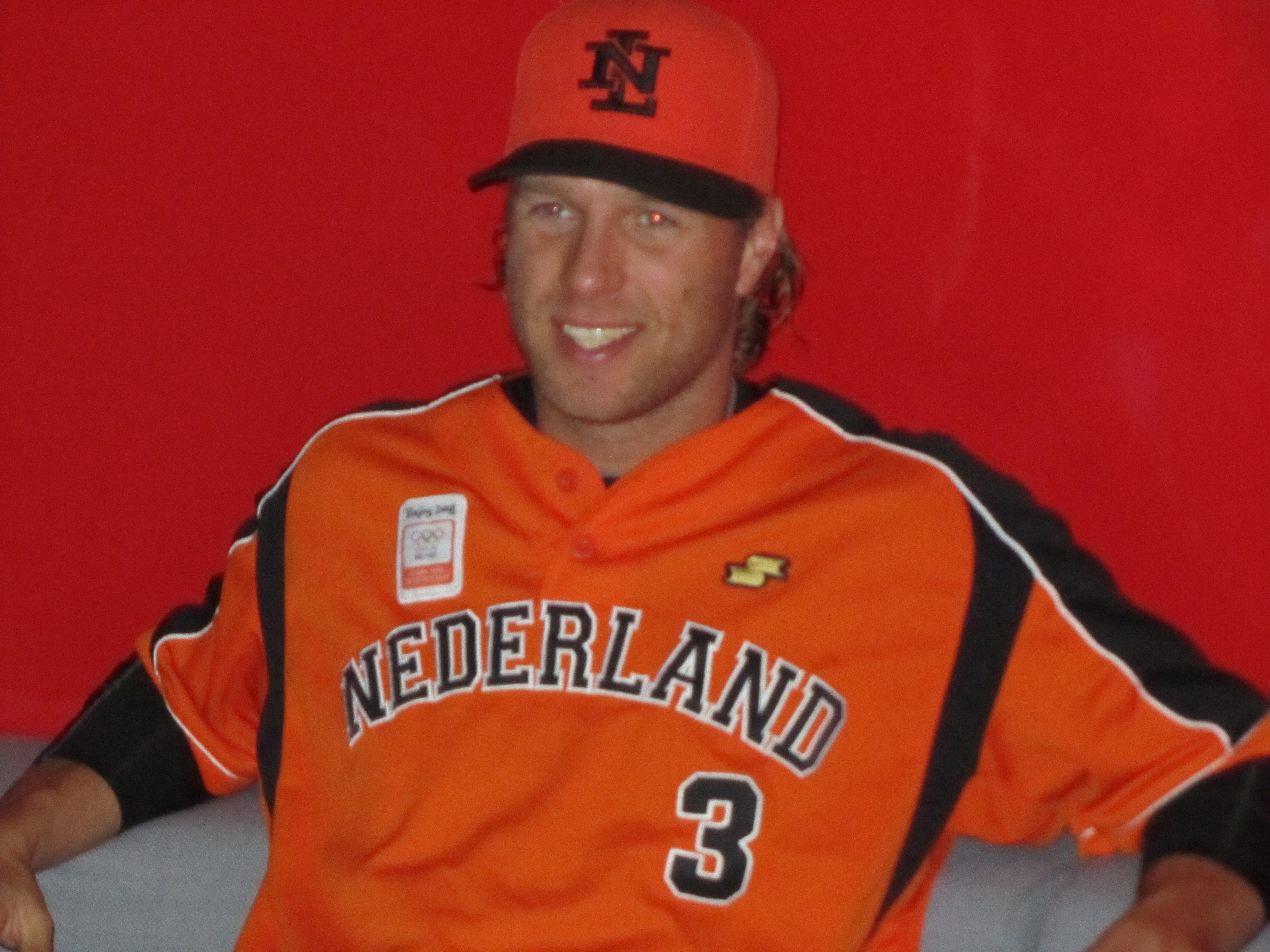 Baseballer Berry van Driel